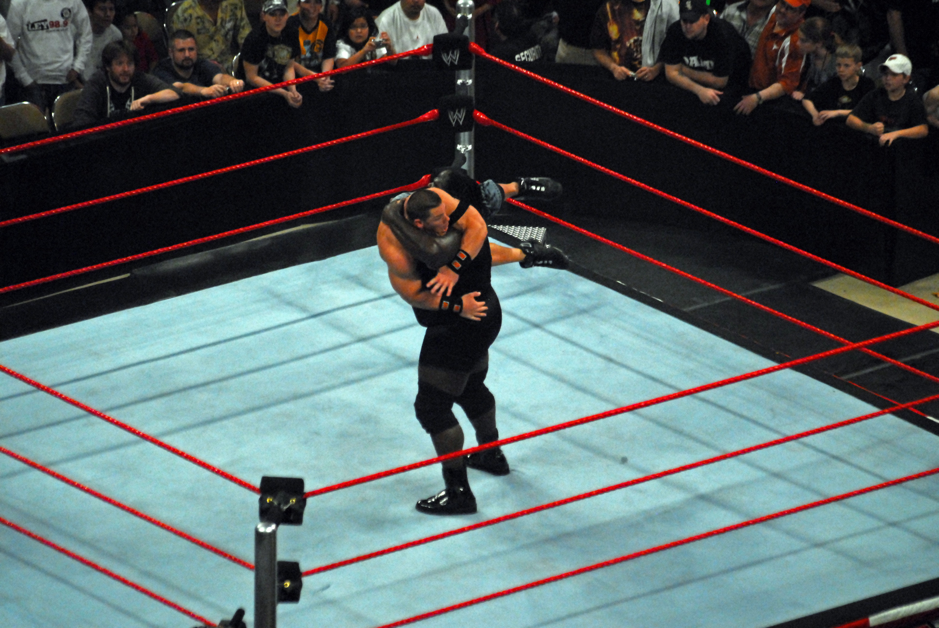 John Cena and Mark Henry